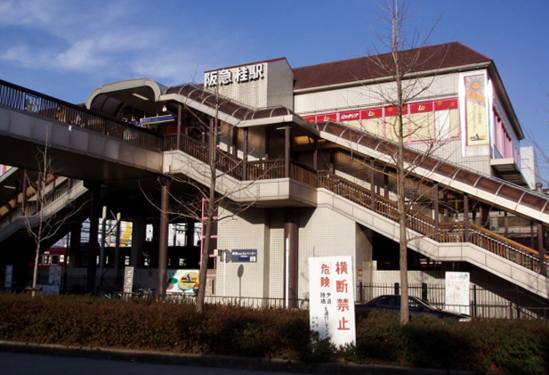 Hankyu Railway Kyōto Main Line & Arashiyama Katsura Station Building West Gate（Close-range view）